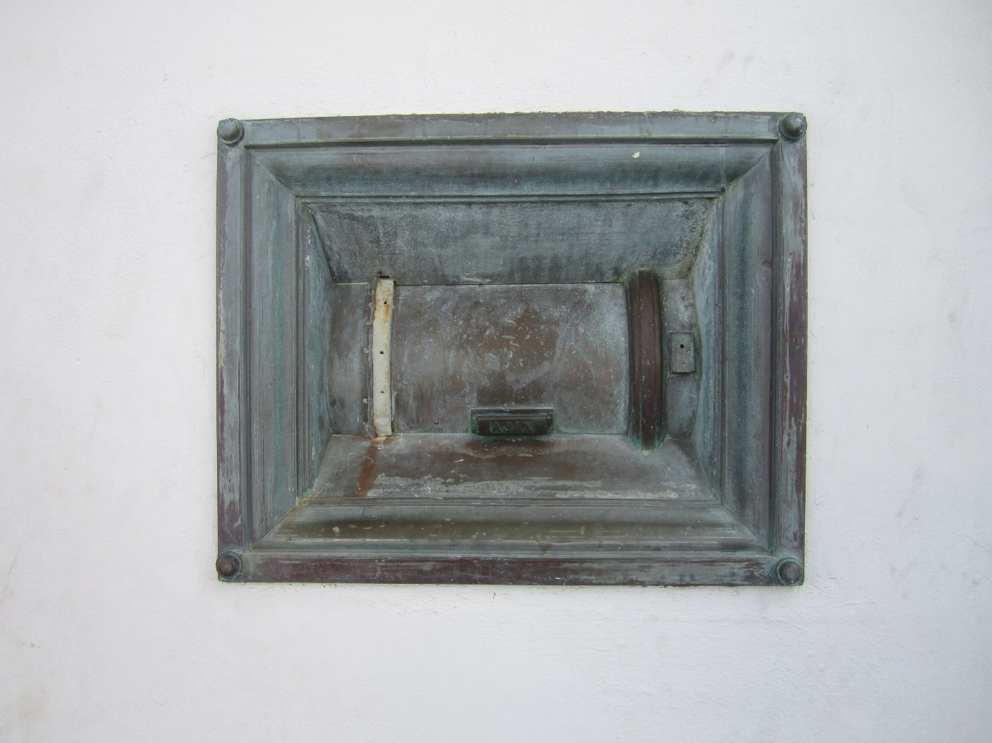 Deposit box in the southern portal of the former Hornibrook Highway Bridge. At one point, this was a tollgate for cars crossing the bridge. The portals for the bridge are listed on the Queensland Heritage Register.